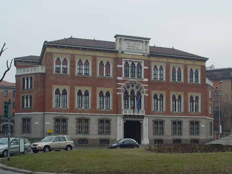 Description Nursing Home for Musicians Founded by Giuseppe Verdi, project by Camillo Boito and built in 1895–1899. Location Piazza Buonarroti, 20Milano Italy Data February 7, 2006 Photographer Franco Folini